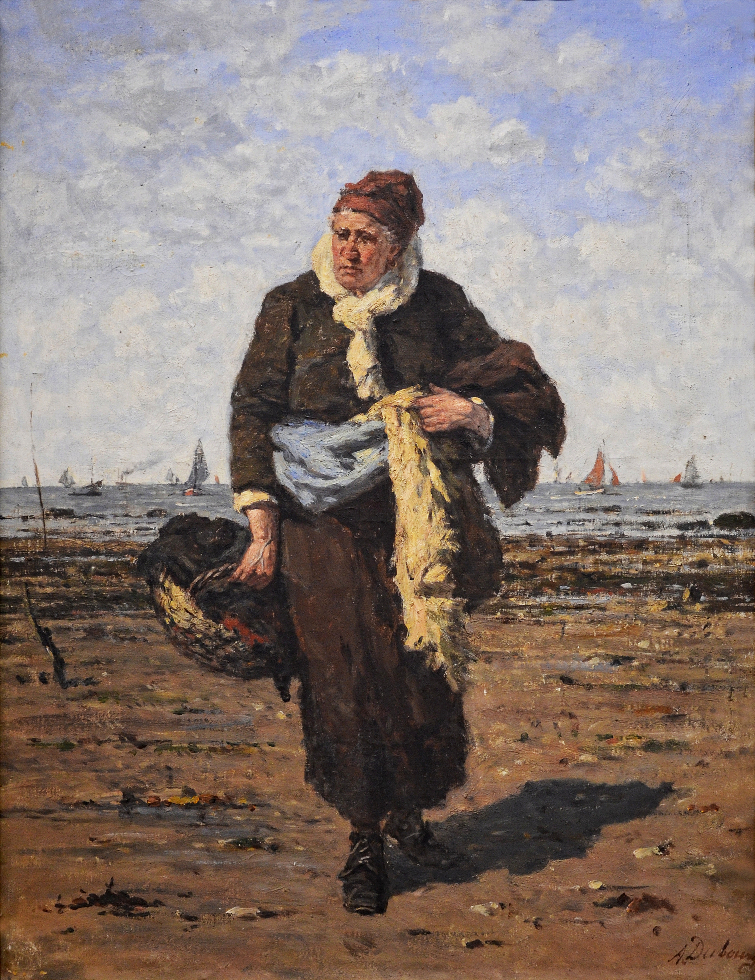 Shellfish vendor in Honfleur